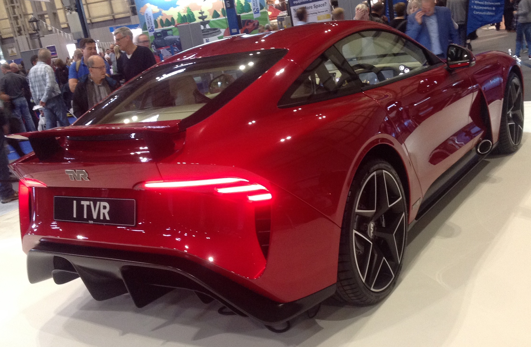 The Newest car at the NEC Classic Car Show, Birmingham 10 November 2017.